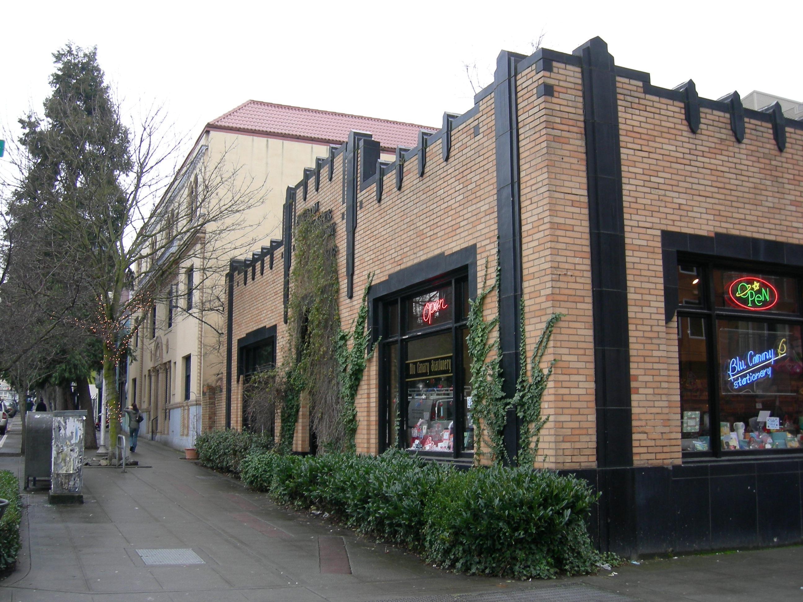 McGraw-Kittenger-Case Building, on the former "film row", 2nd Avenue, Belltown, Seattle, Washington. The building was MGM's office in Seattle until about 1980, the last film company office on film row. Behind it, at left, is the former William Tell Hotel. It was low-income housing at the time of this photo; as of 2008 it is empty and up for sale. More information at Summary for 2331-33 2nd AVE / Parcel ID 0655000045, Seattle Department of Neighborhoods.